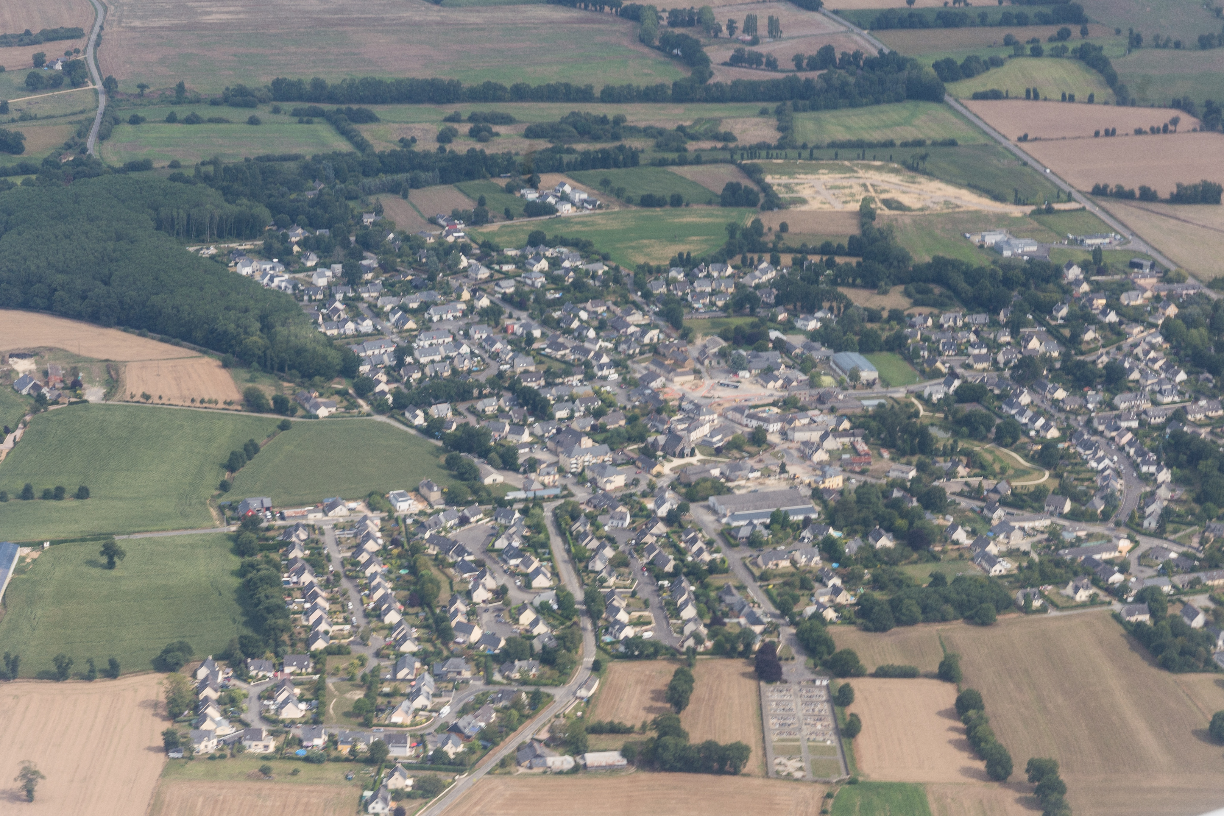 Aerial view of Cintré during a flight from CDG to RNS.